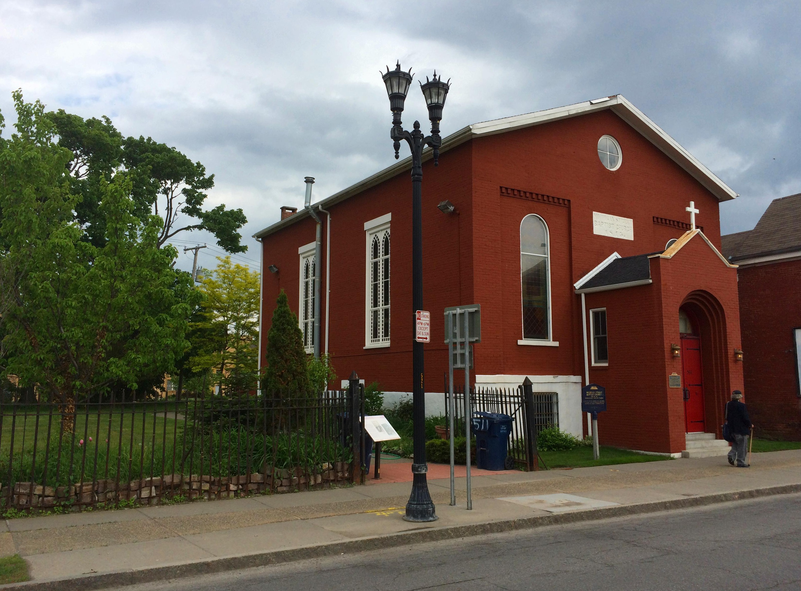 The Michigan Street Baptist Church, Michigan Avenue, Buffalo, New York.